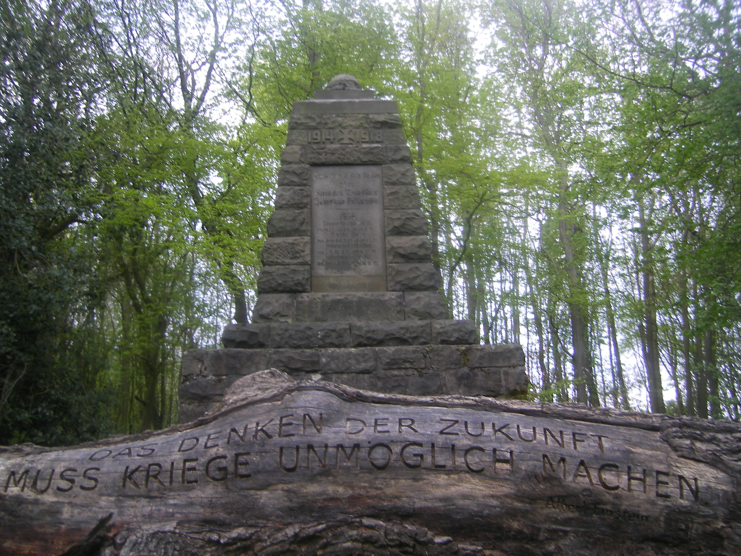 This is part of an landart project against war on the homberg hill in herford (germany)